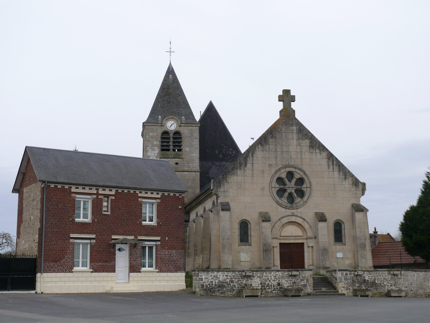 Saint-Eloi's church of Cuvilly (Oise, Picardie, France).